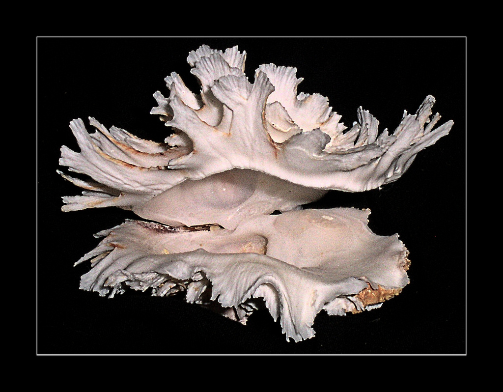 Shell of Chama lazarus (Bivalvia: Veneroida: Chamidae) from a sea cave on Siargao Island (Mindanao, Philippines).